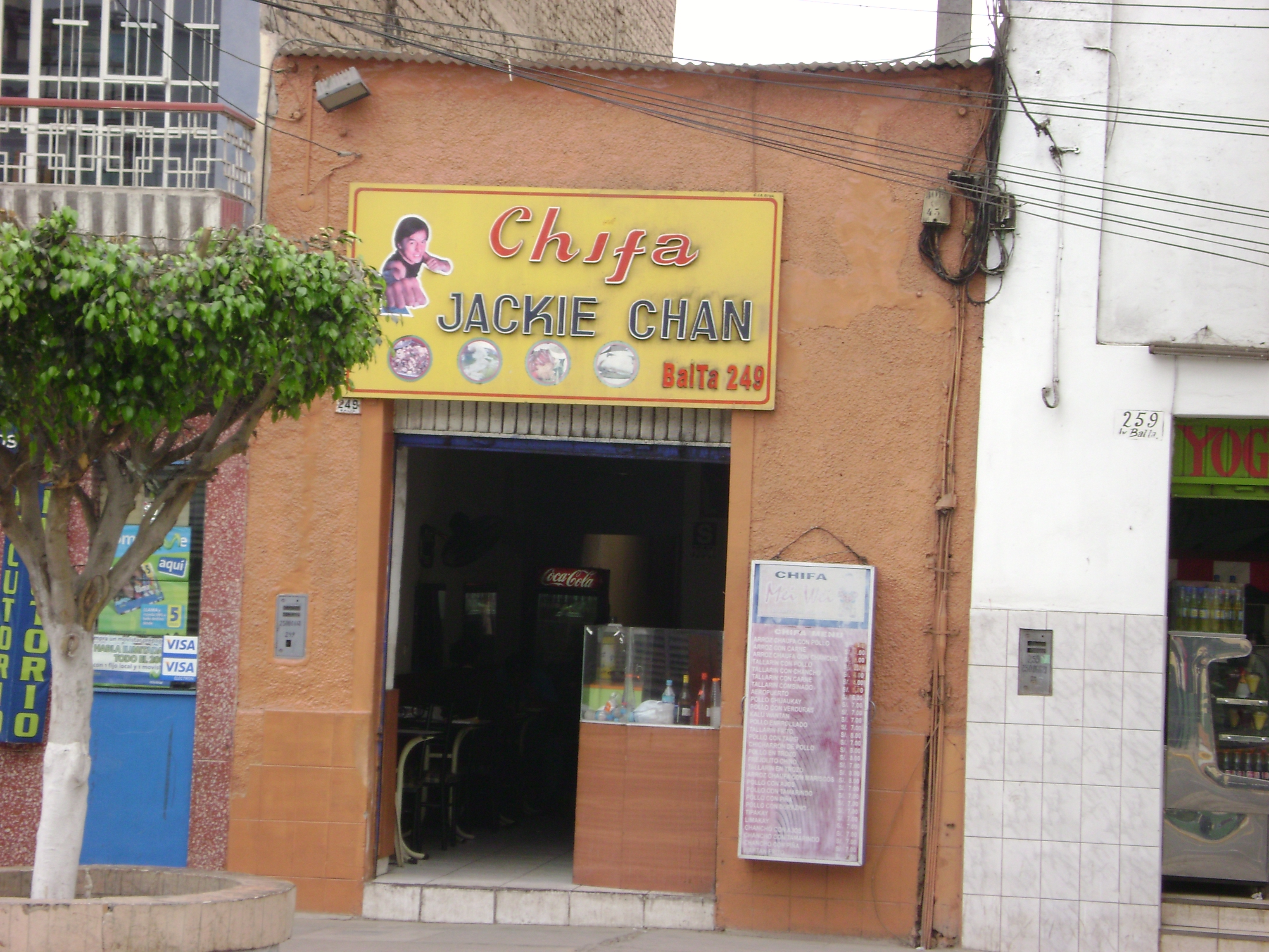 A Chifa (peruvian-chinese cuisine restaurant) named "Jackie Chan". Chiclayo, Perú.